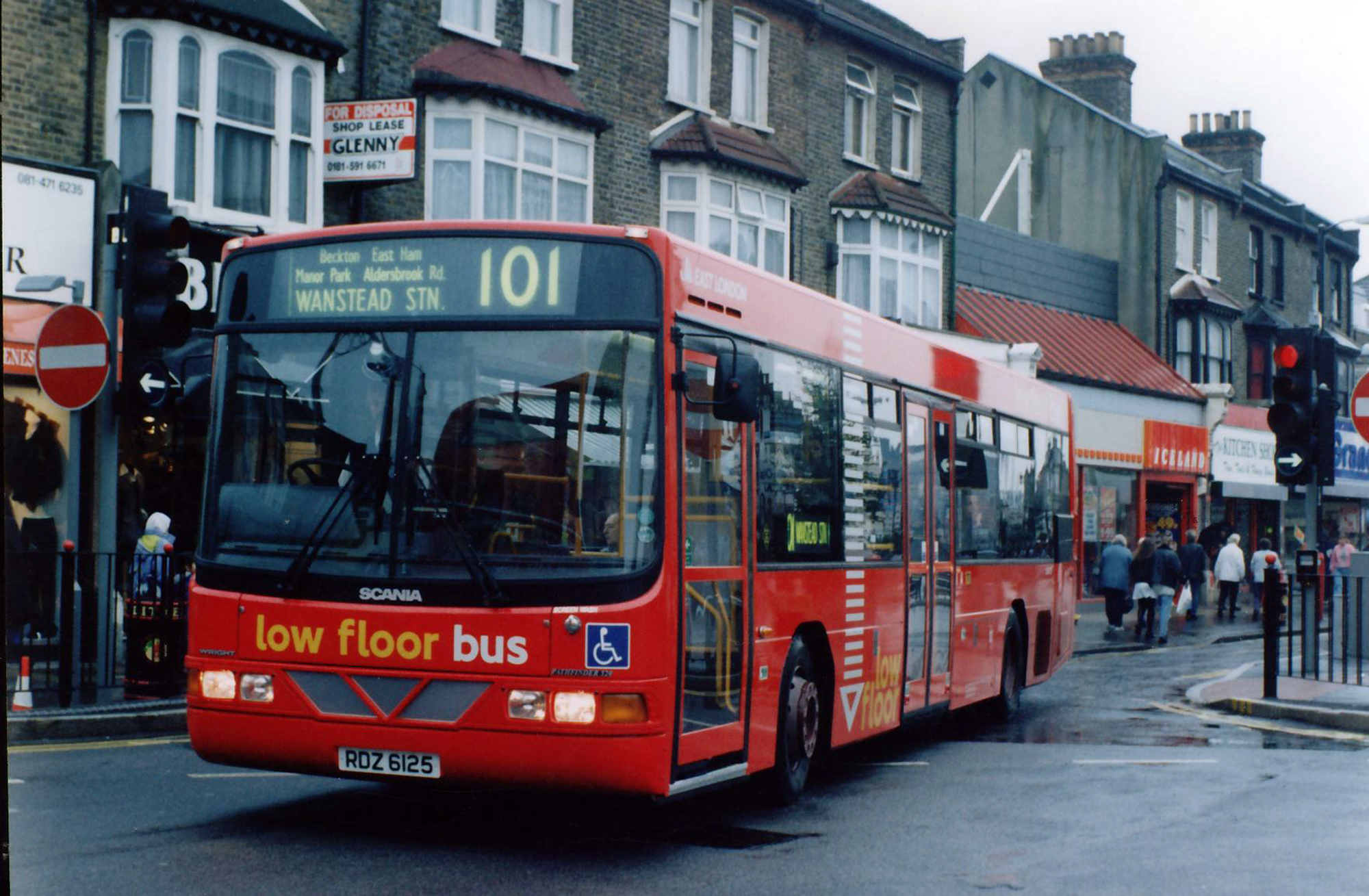 EAST LONDON - RDZ 6125 - Route 101 - EAST HAM Jeff Lloyd RDZ6125 Sca N113CRL 1822156 Wt S199 B37D 10/1994 London Transport SLW25